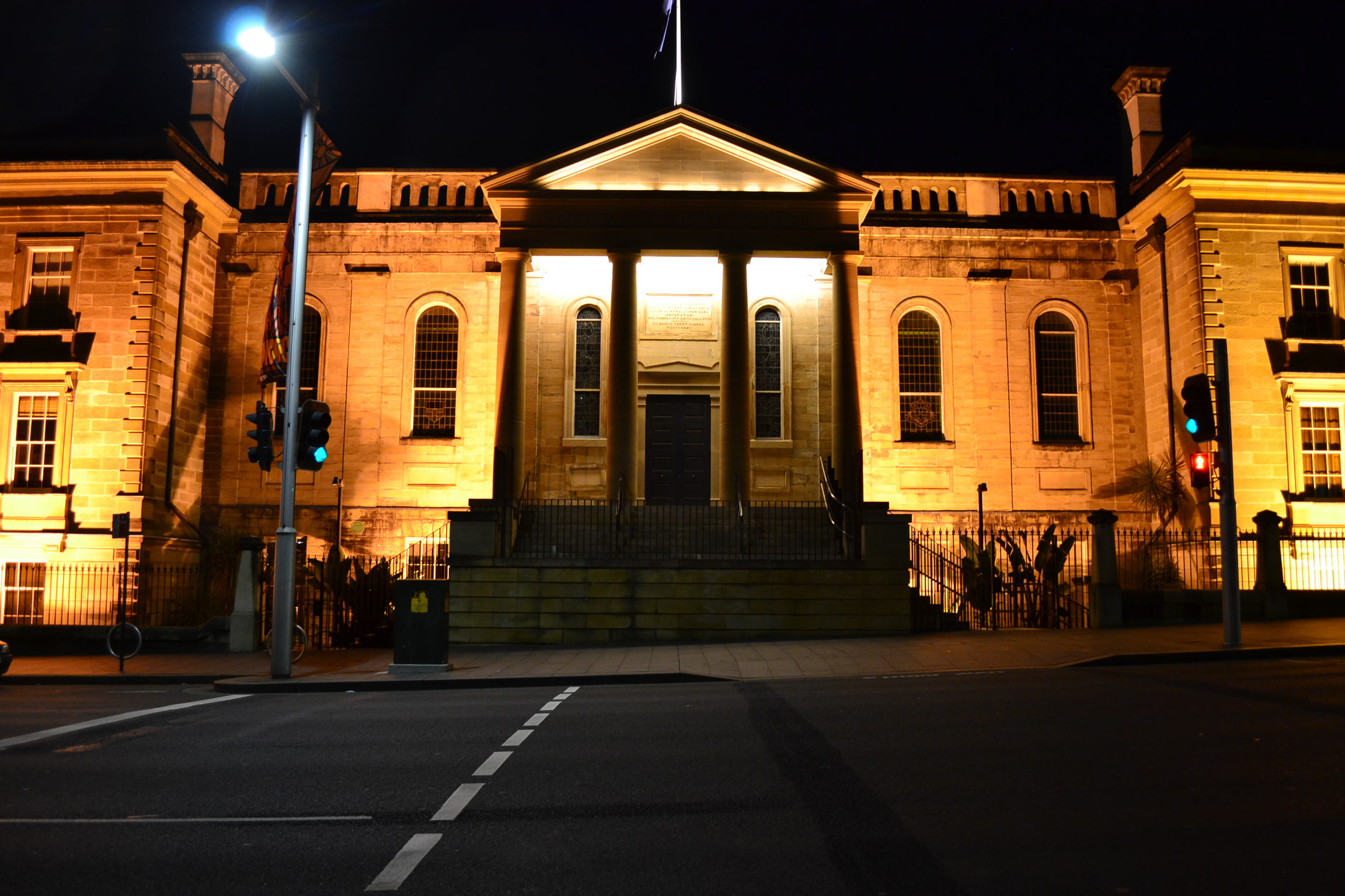 sydney grammar school